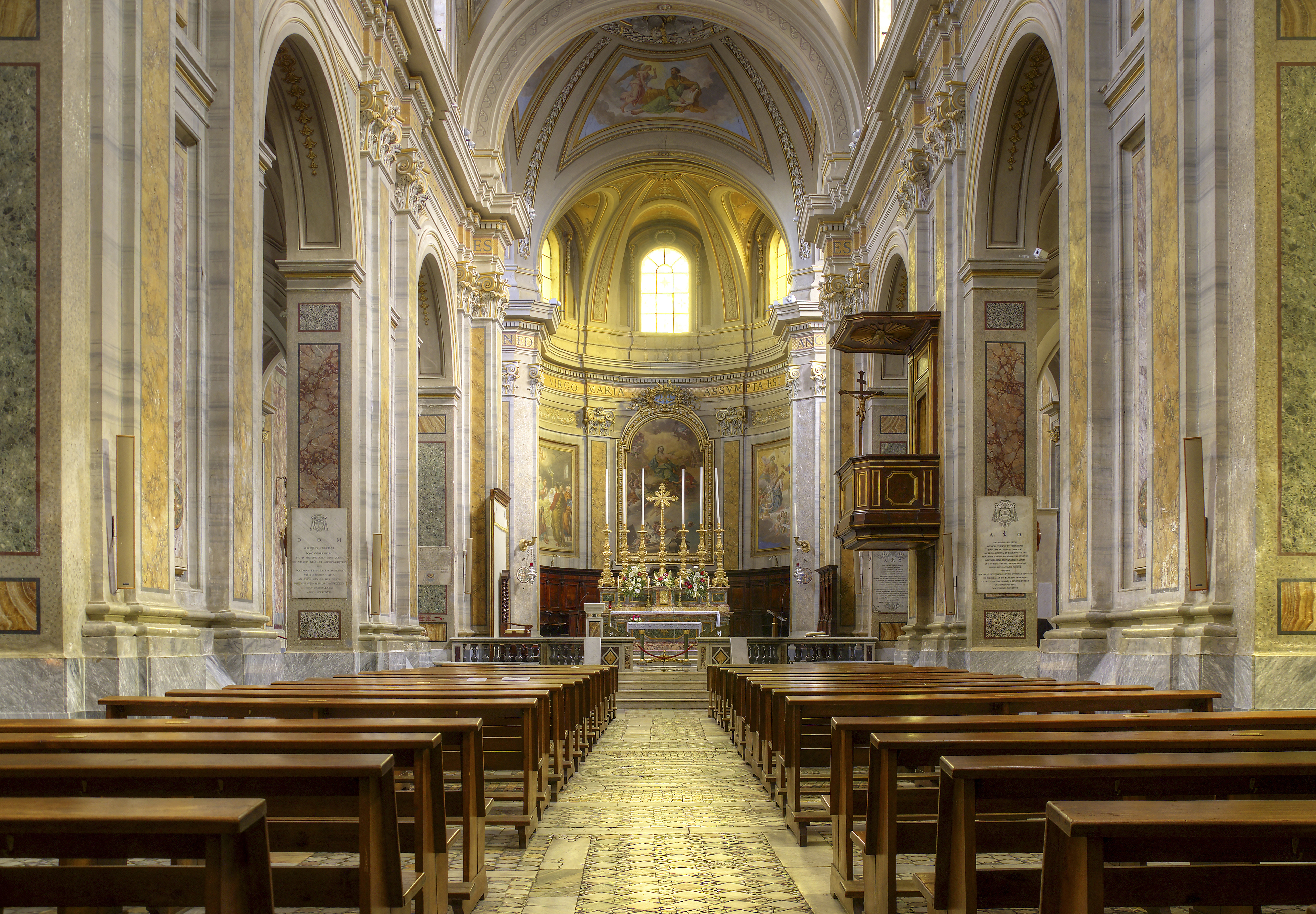 Concattedrale of Sutri